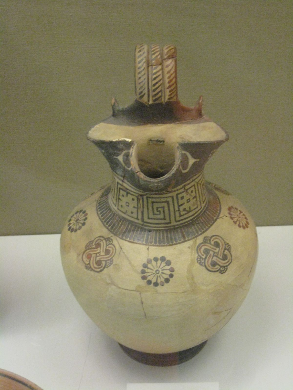 Geometric Oinochoe with cable and floral patterns on the shoulder. East Greek, 6th century BC. Found at Camirus, Rhodes.